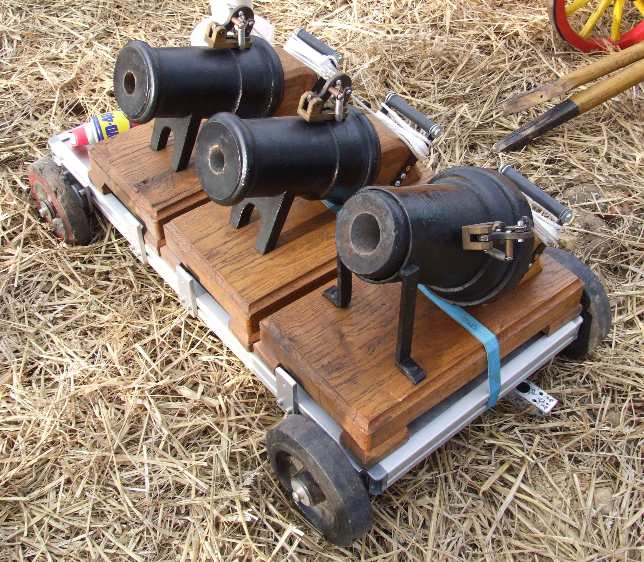 historic salute guns of Nußdorf. Seen in Nußdorf a part of Überlingen, Germany